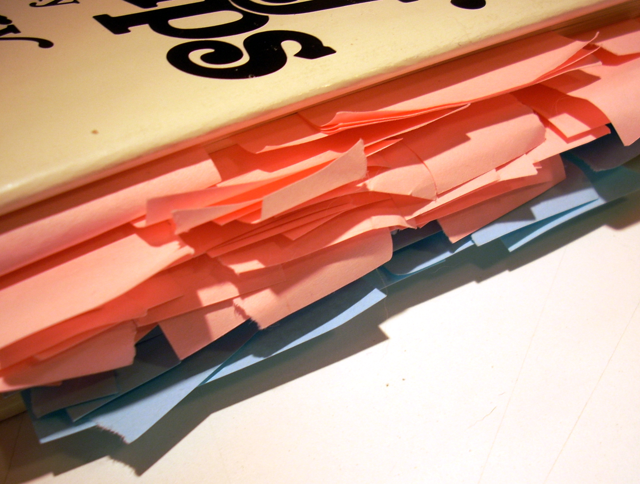 pressure sensitive adhesive note paper in action.